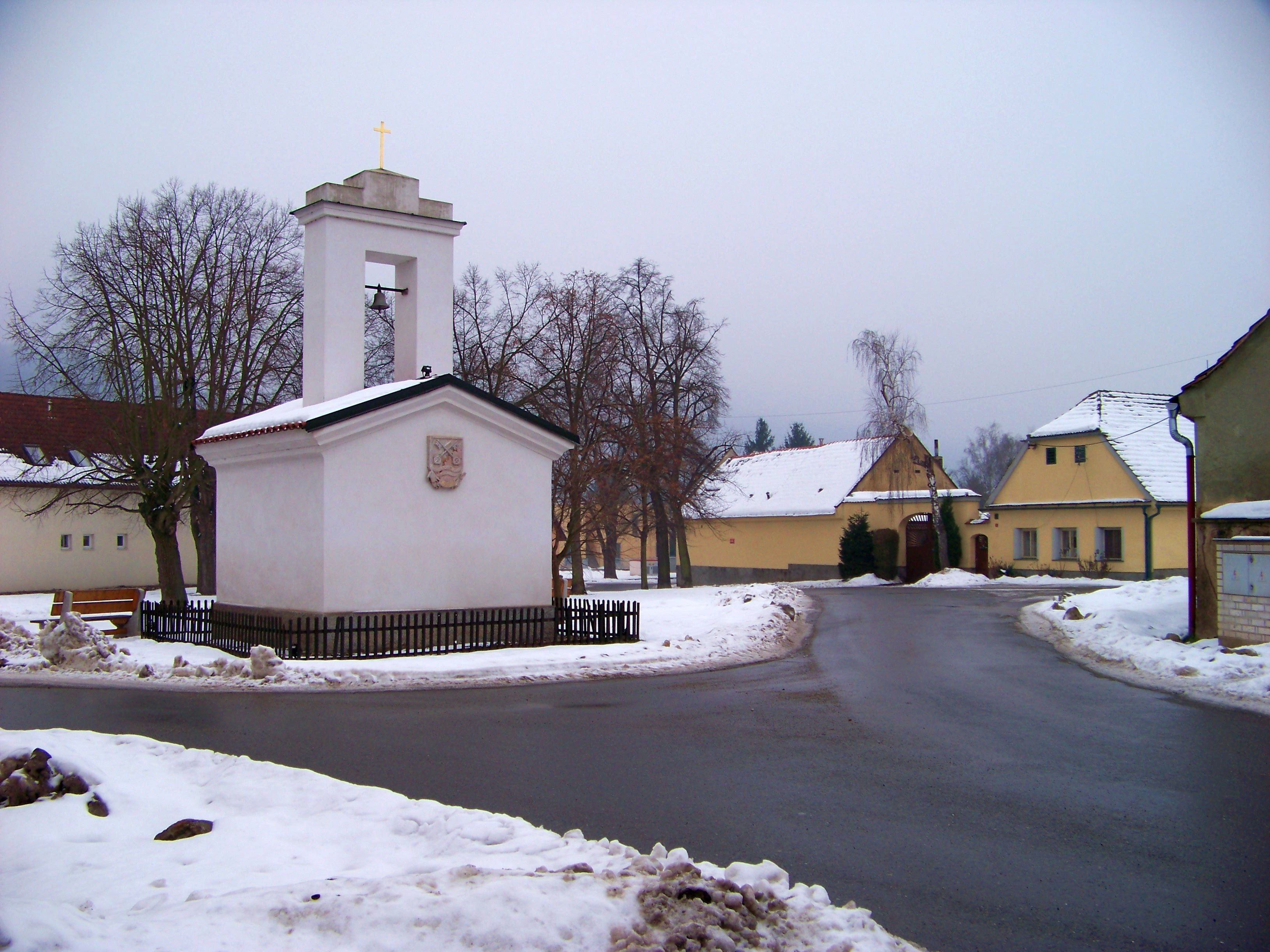 Lety, Prague-West District, Central Bohemian Region, the Czech Republic. Na Návsi, a chapel. s - Google Maps - Google Earth